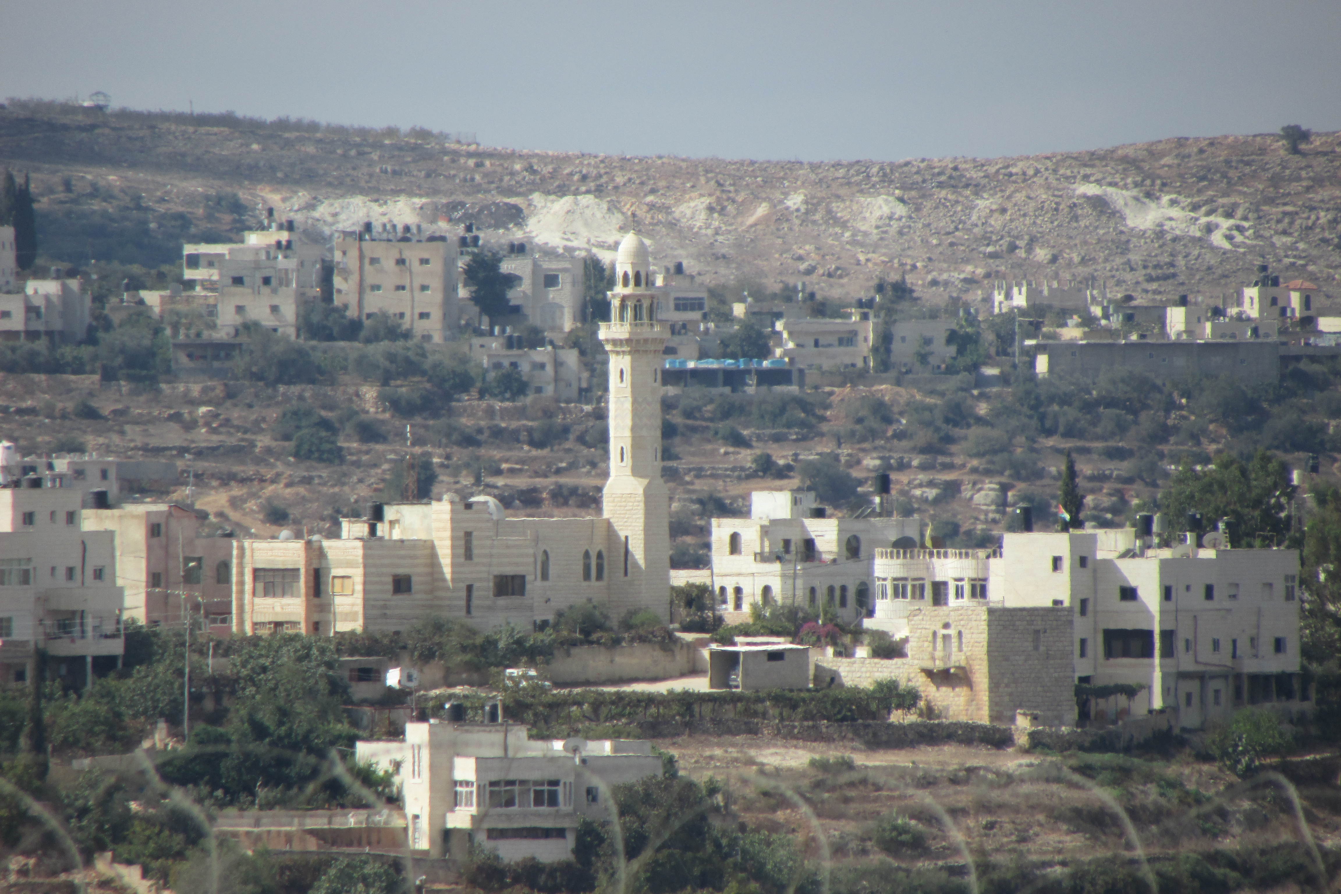 Beit Duqqu from route 443 in the north